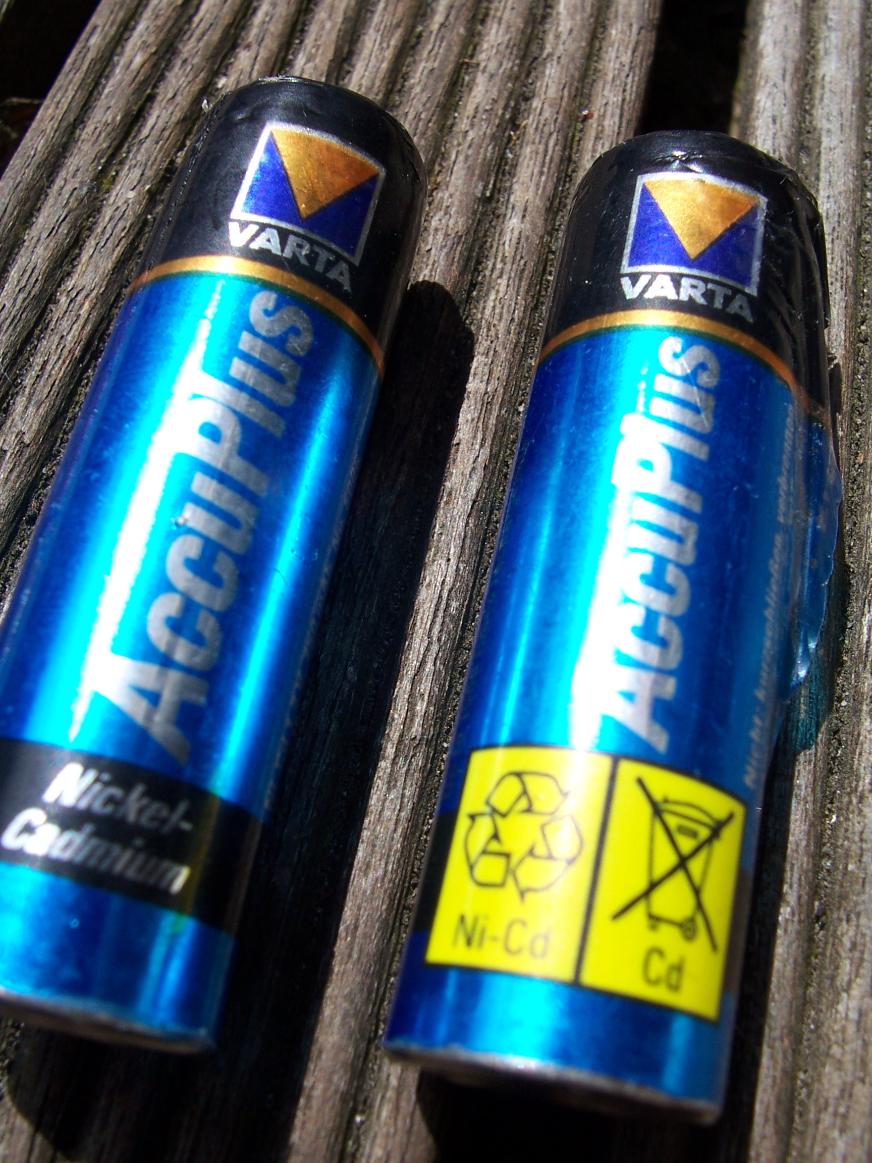 A picture of Varta batteries, self made.